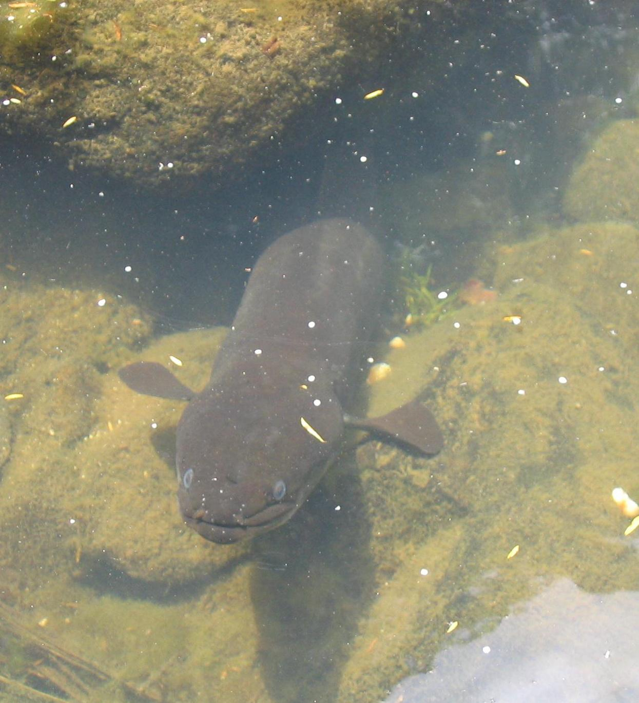 Waitakere ranges New Zealand long fin eel (Anguilla dieffenbachii) by David Burgess